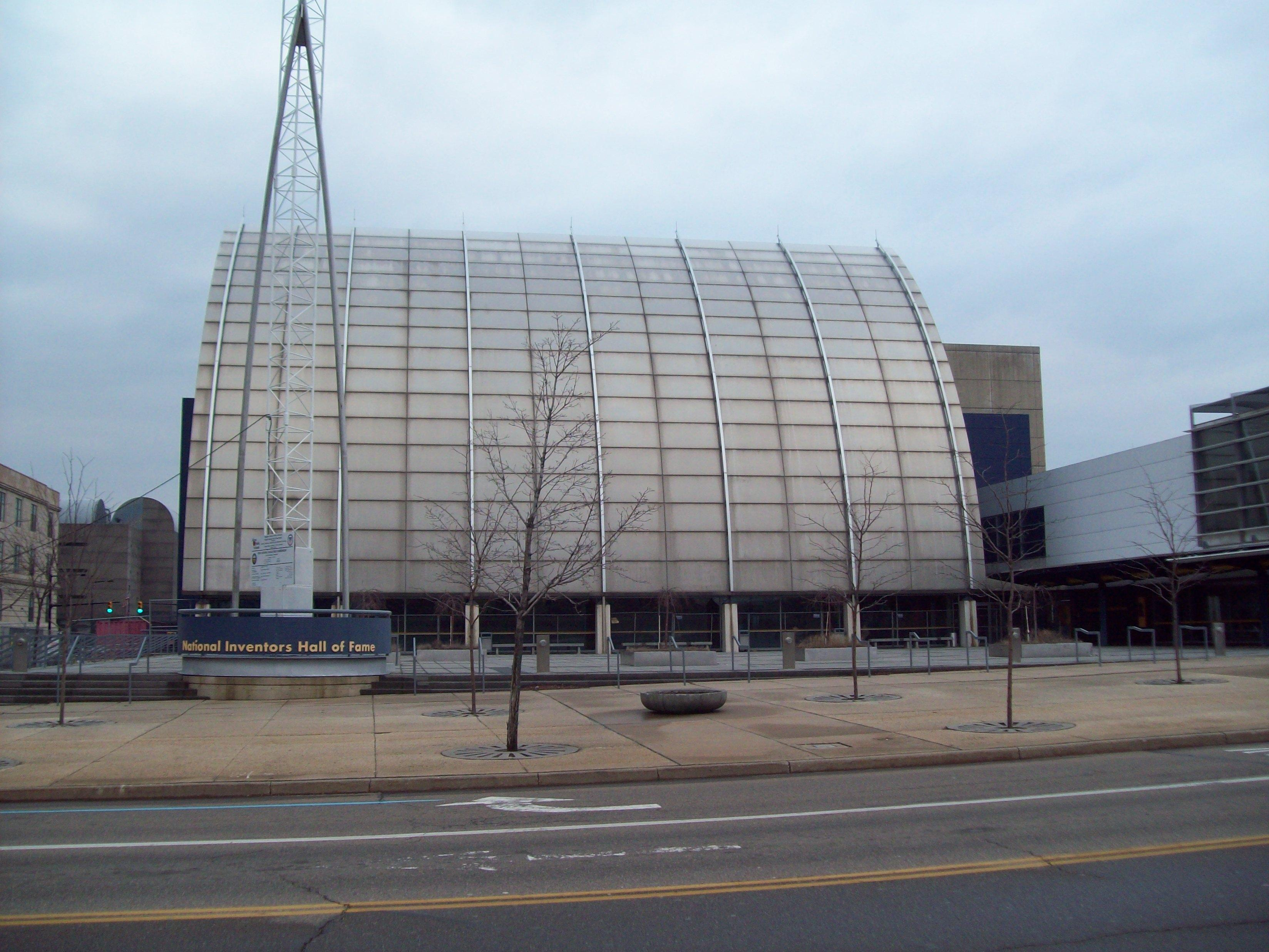 The National Inventors Hall of Fame, located in downtown Akron.